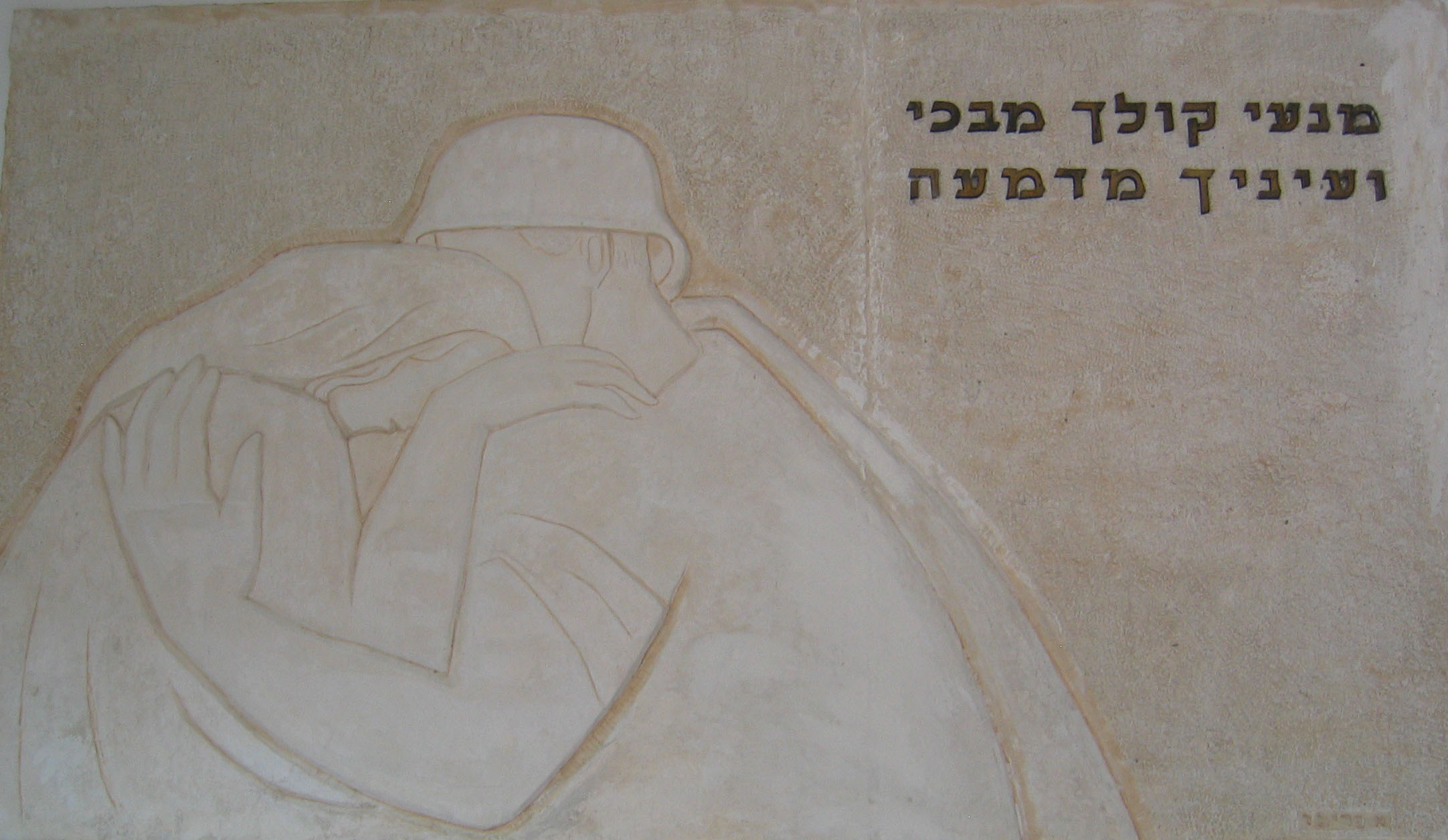 "Mine Kolech Mebechi" ("Stop your voice from cring") by Aharon Priver, concrete relief at Yad Labanim Petach Tikva Museum of Art.